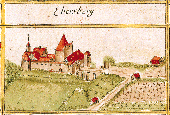 View of Ebersberg, Auenwald, from the forest register books created by Andreas Kieser